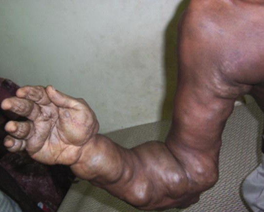 Multiple soft tissue swelling involving the entire upper limb, axilla and periscapular region in the patient with Servelle-Martorell syndrome